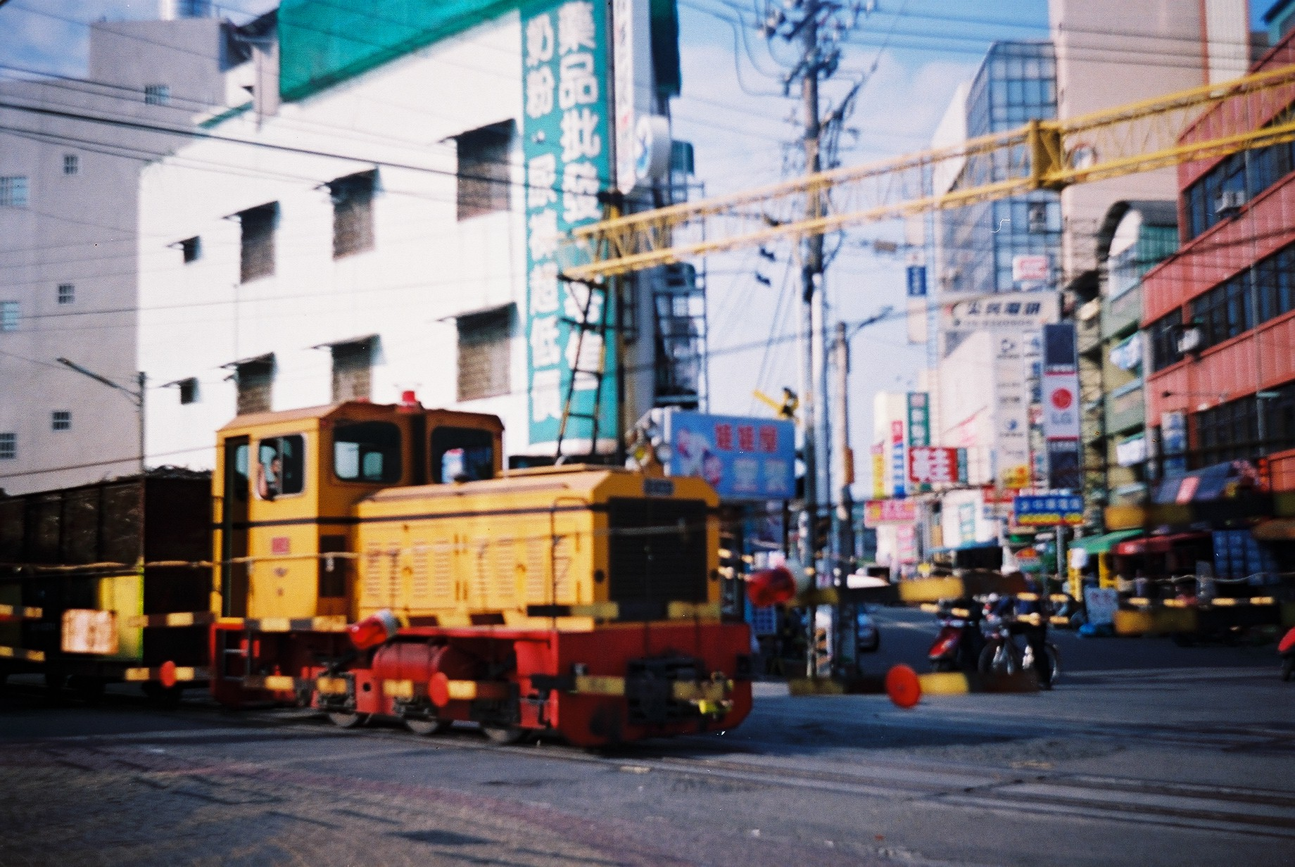 Taiwan Sugar Railway Train @ Huwei